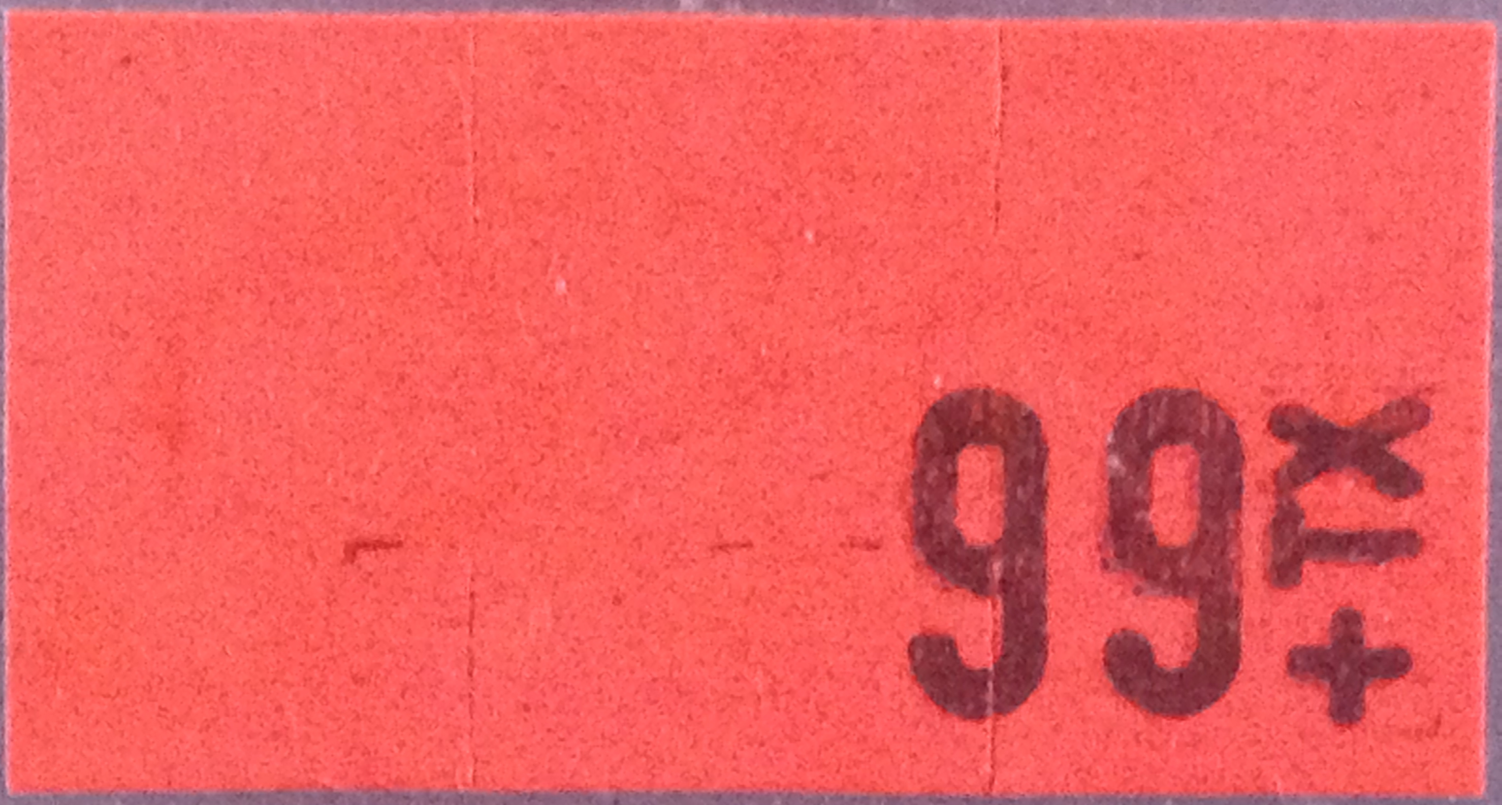 Plain Red price tag as applied with a Price Tag Label Gun.